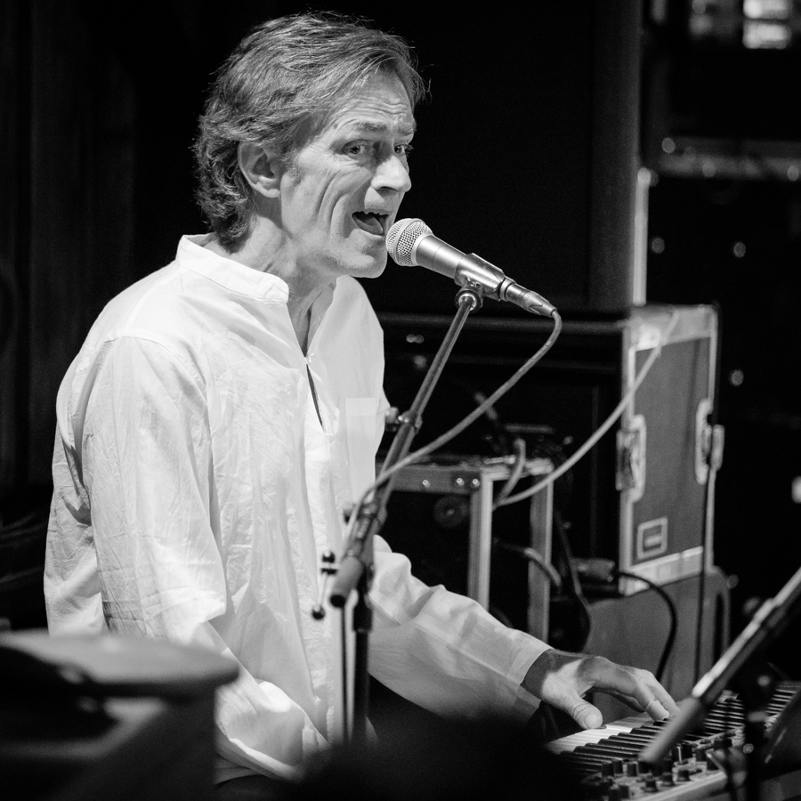 Ole Henrik Giørtz with Mulens Portland Combo at Christians Kjeller. The concert was part of Kongsberg Jazzfestival and took place on 05. July 2018 in Kongsberg. Lineup:Hans Cato Kristiansen (vocal and guitar)Freddy Dahl (guitar)Frode Alnæs (vocal)Ole Henrik Giørtz (keyboard)Palle Wangberg (organ)Tom Erik Antonsen (bass guitar)Rolf “Mulen” Karlsen (drums)Rune Arnesen (percussion)Torbjørn Sunde (trombone)Unidentified (saxophone)Jens Petter Antonsen (trumpet)